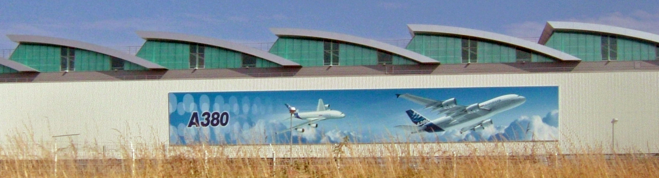 Airbus Factory in Bouguenais near Nantes (France)